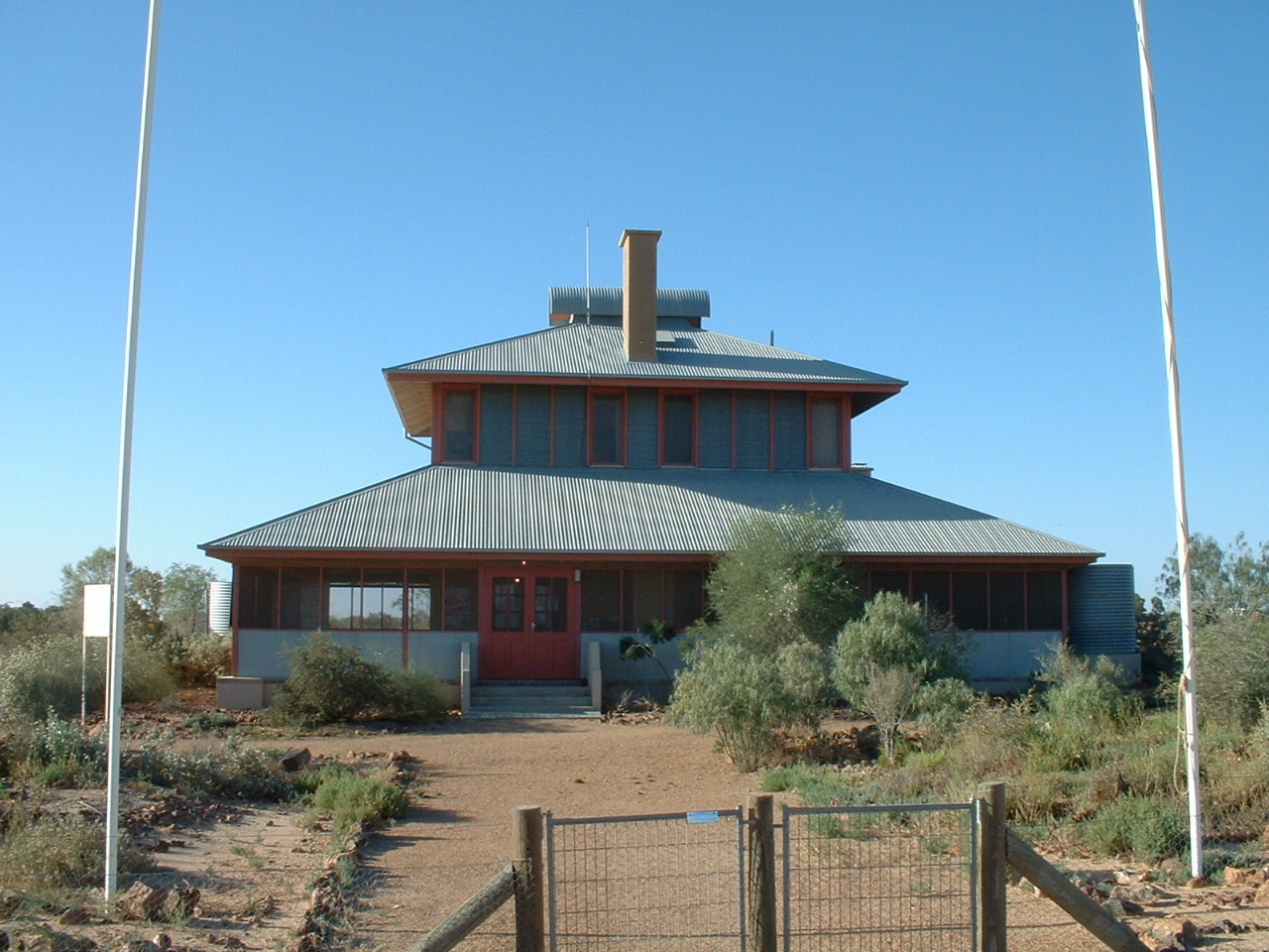 The restored Elizabeth Symon Nursing Home (1928) at Innamincka, South Australia. The building is now an interpretative centre for the area.